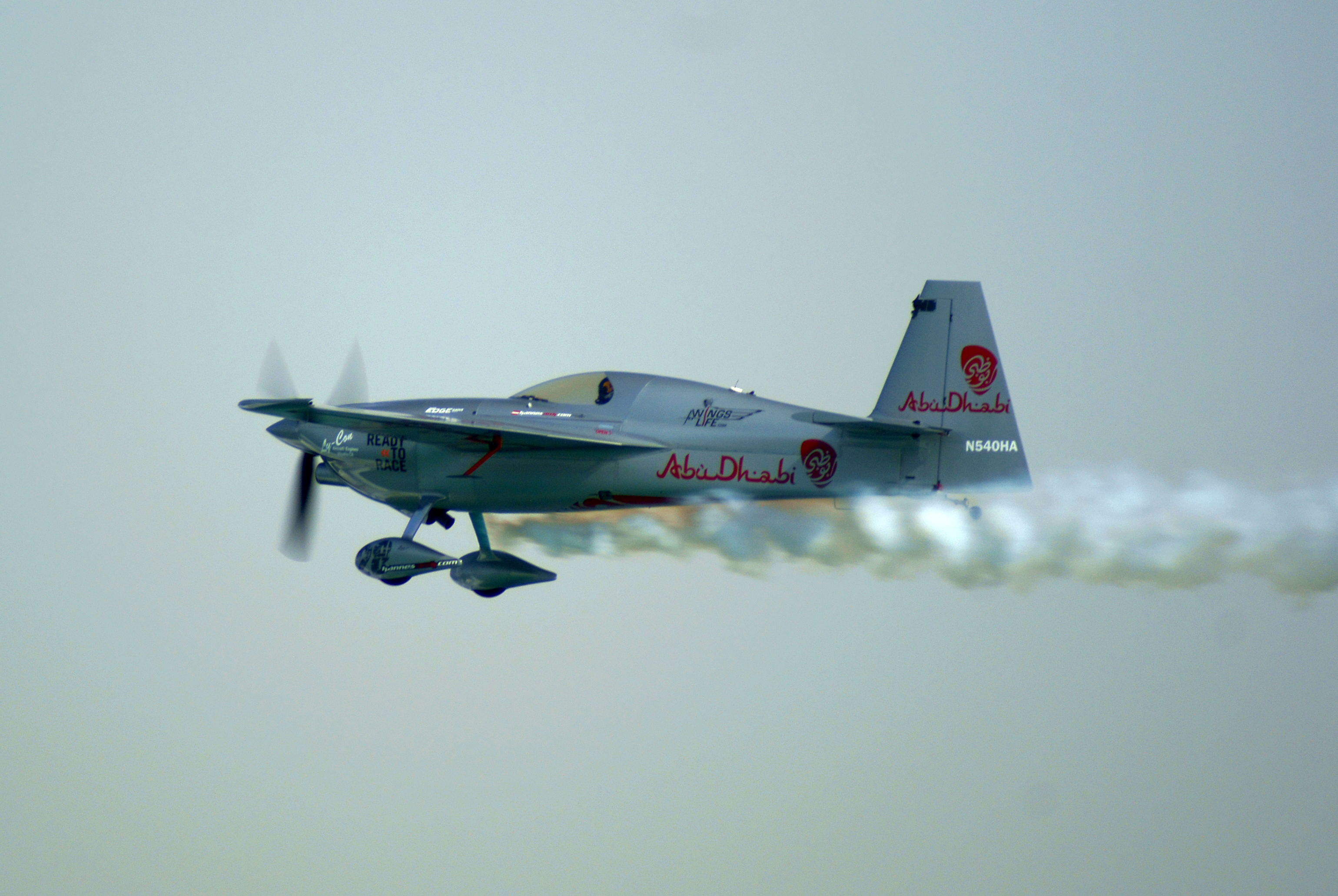 Hannes Arch at the Red Bull Airrace 2010 in Abu Dhabi.